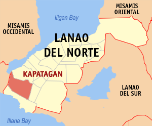 Map of the Lanao del Norte showing the location of Kapatagan